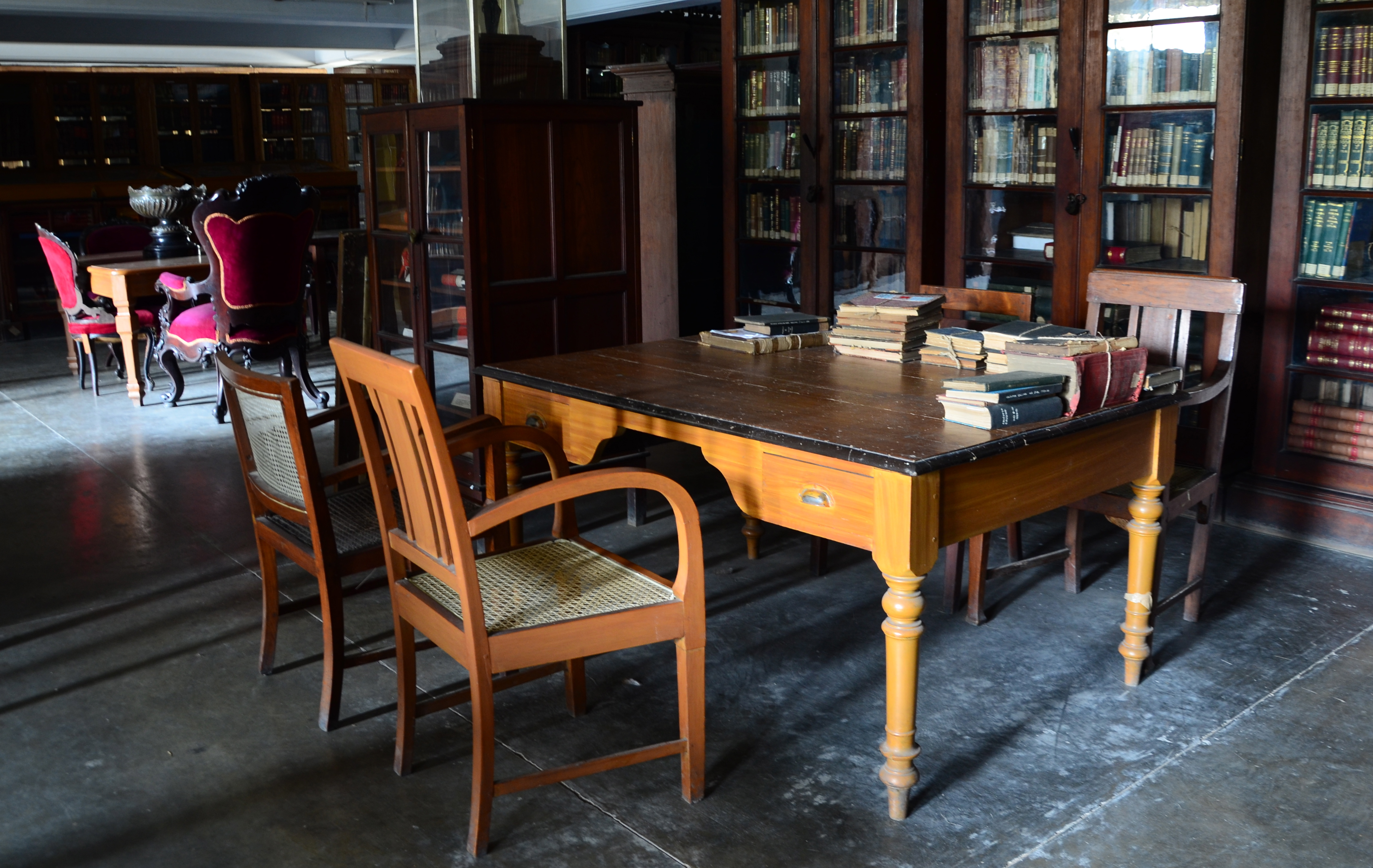 Geothals library at St.Xaviers College' Kolkata